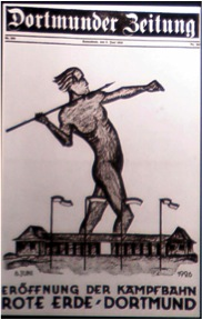 Opening of Kampfbahn Rote Erde, Dortmund